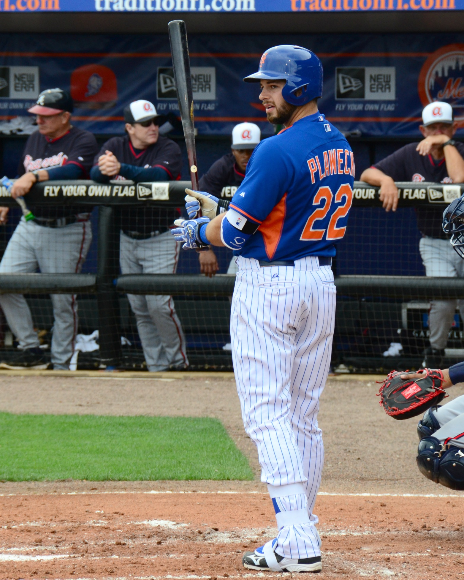 Kevin Plawecki